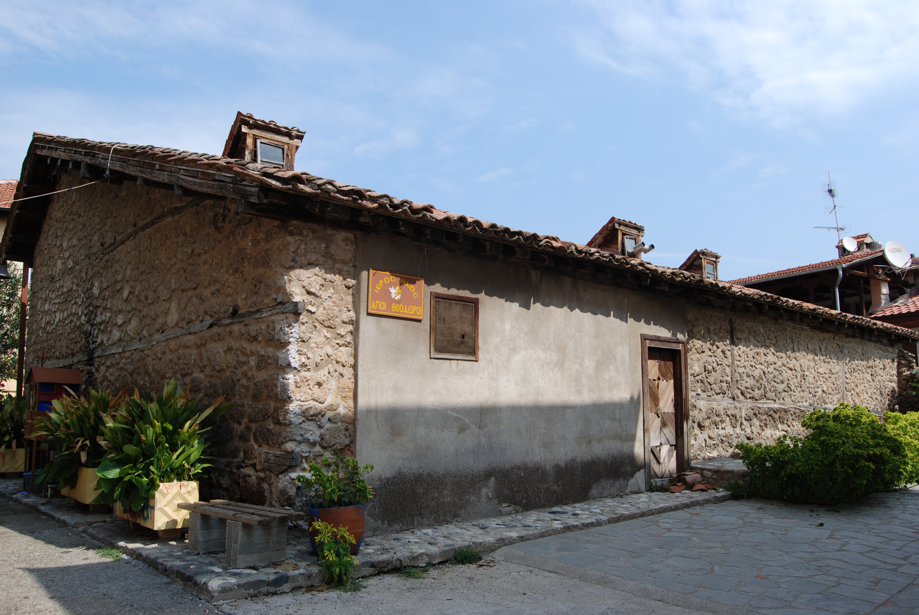 Theodor Tiron, Ber